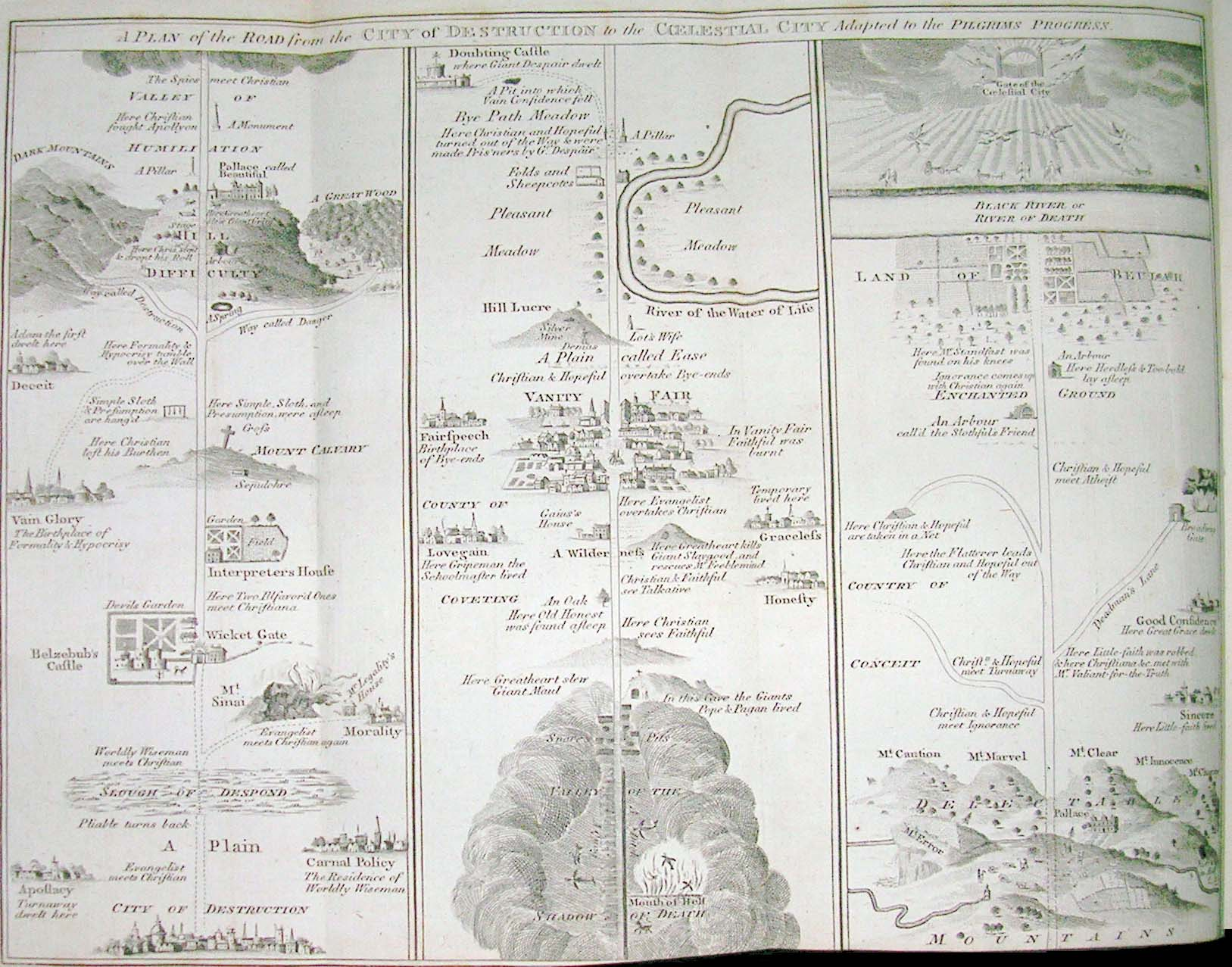 Engraving from The Pilgrim's Progress, published in London, 1778. This is a fold-out map, showing Pilgrim's journey and the various places he passes through.